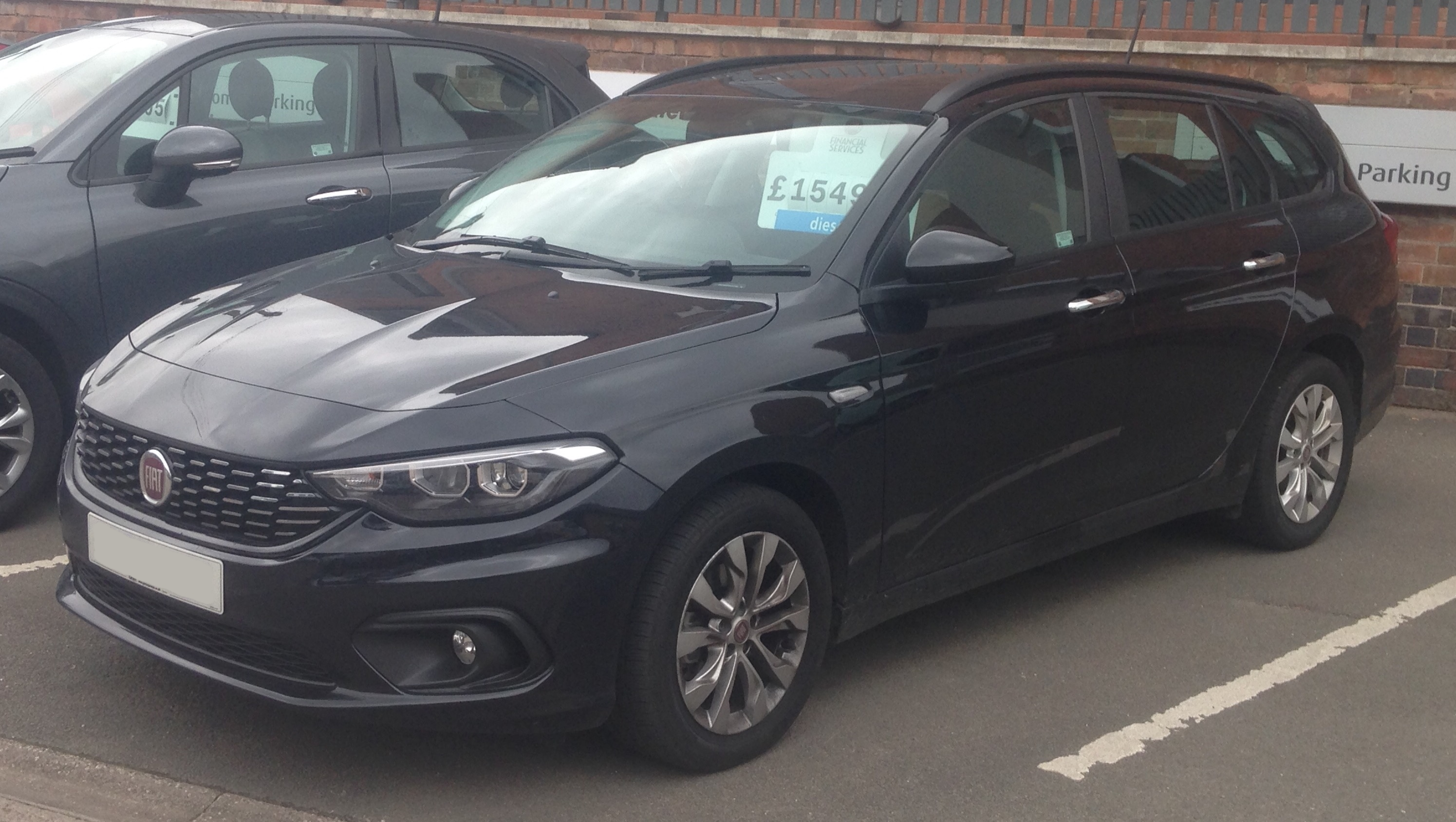 2016 Fiat Tipo Easy 1.6 Taken in Warwick